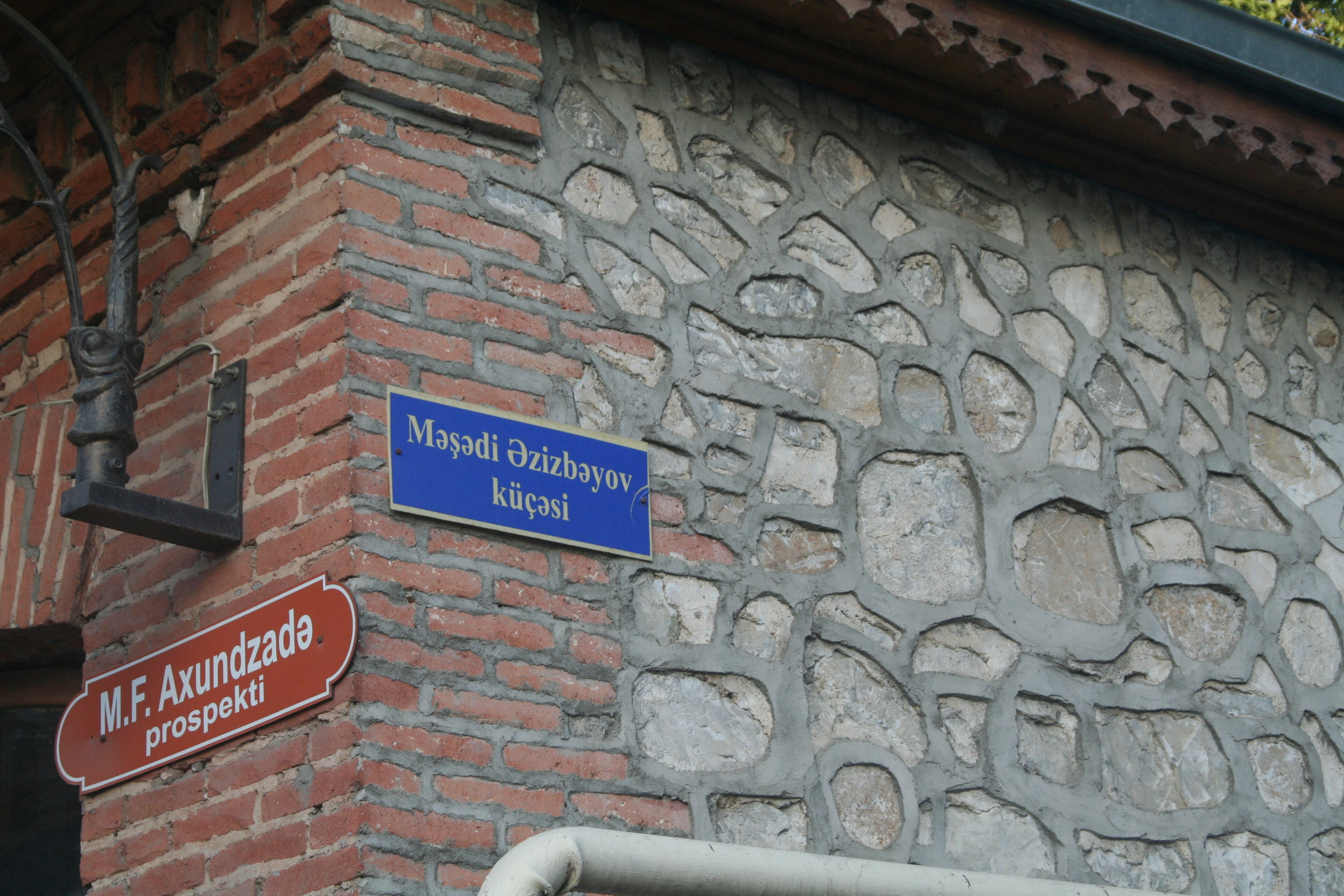 Meshadi Azizbekov Street in Shaki